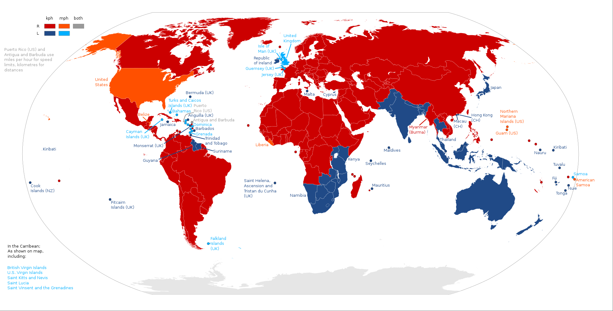 A map indicating which countries drive on the right side of the road, and which drive on the left side, coupled with whether they use kilometers as a distance/speed unit, or miles. Right-hand traffic, kilometers Right-hand traffic, miles Right-hand traffic, miles per hour (for speed limits) and kilometers (for distances) Left-hand traffic, kilometers Left-hand traffic, miles